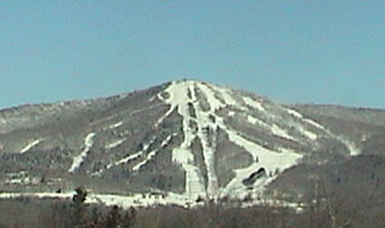 Bromley Mountain, VT